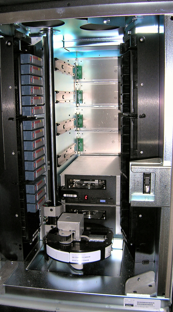 ADIC Scalar 100 tape library interior after opening the doors. On the shelves 15 LTO-2 tape cartridges, 200 GB each. A robot on the bottom, 2 IBM LTO-2 tape drives behind. Room for four more drives and 21 more tapes.